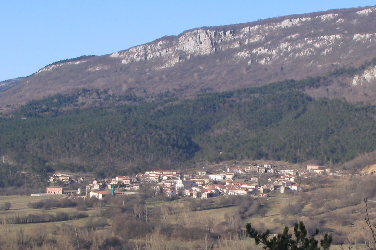 Lanišće, Istria, Croatia, view from south